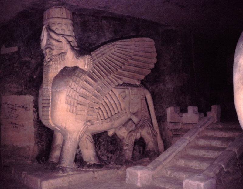 Jezuïetenberg - cherub